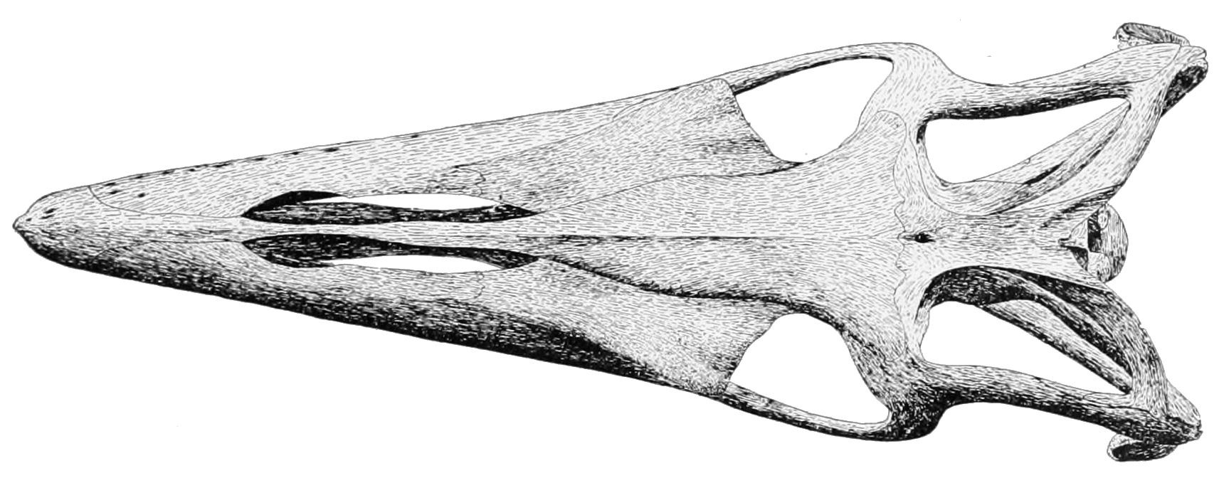 Top of skull of Clidastes velox